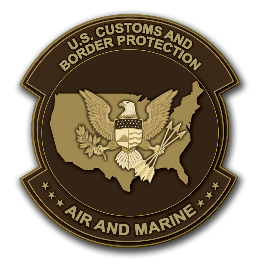 U.S. Customs and Border Protection Air and Marine Emblem